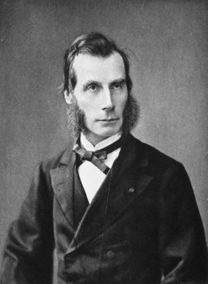 Picture of Fustel de Coulanges, n.d.